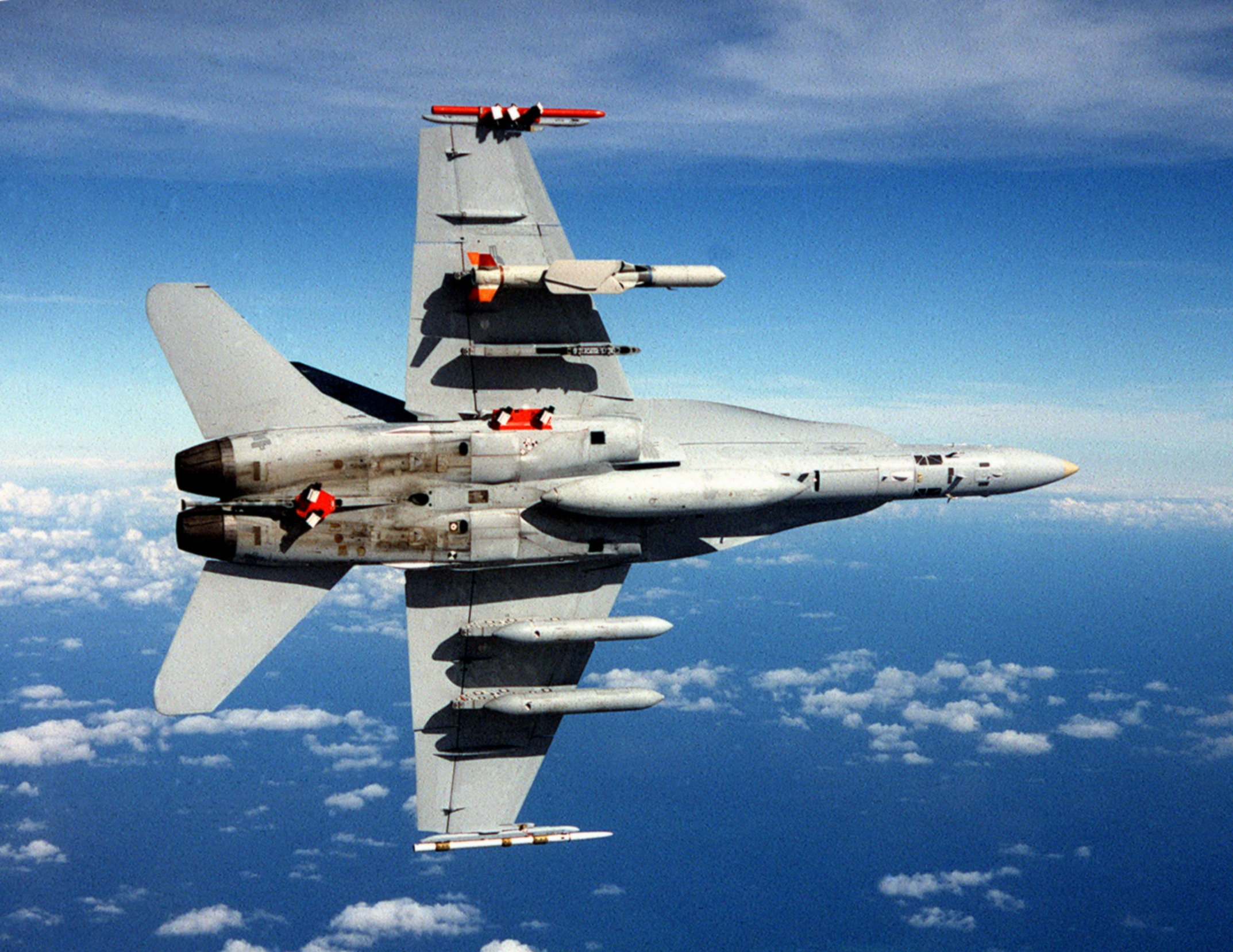 A U.S. Navy McDonnell Douglas F/A-18C Hornet from the Naval Air Warfare Center, Weapons Division (NAWCWD), China Lake, California (USA), in flight. The aircraft is equipped with an AGM-84 Standoff Land Attack Missile-Expanded Response (SLAM-ER) under the right wing and two AN/AWW-13 Advanced Data Link pods under the left wing.